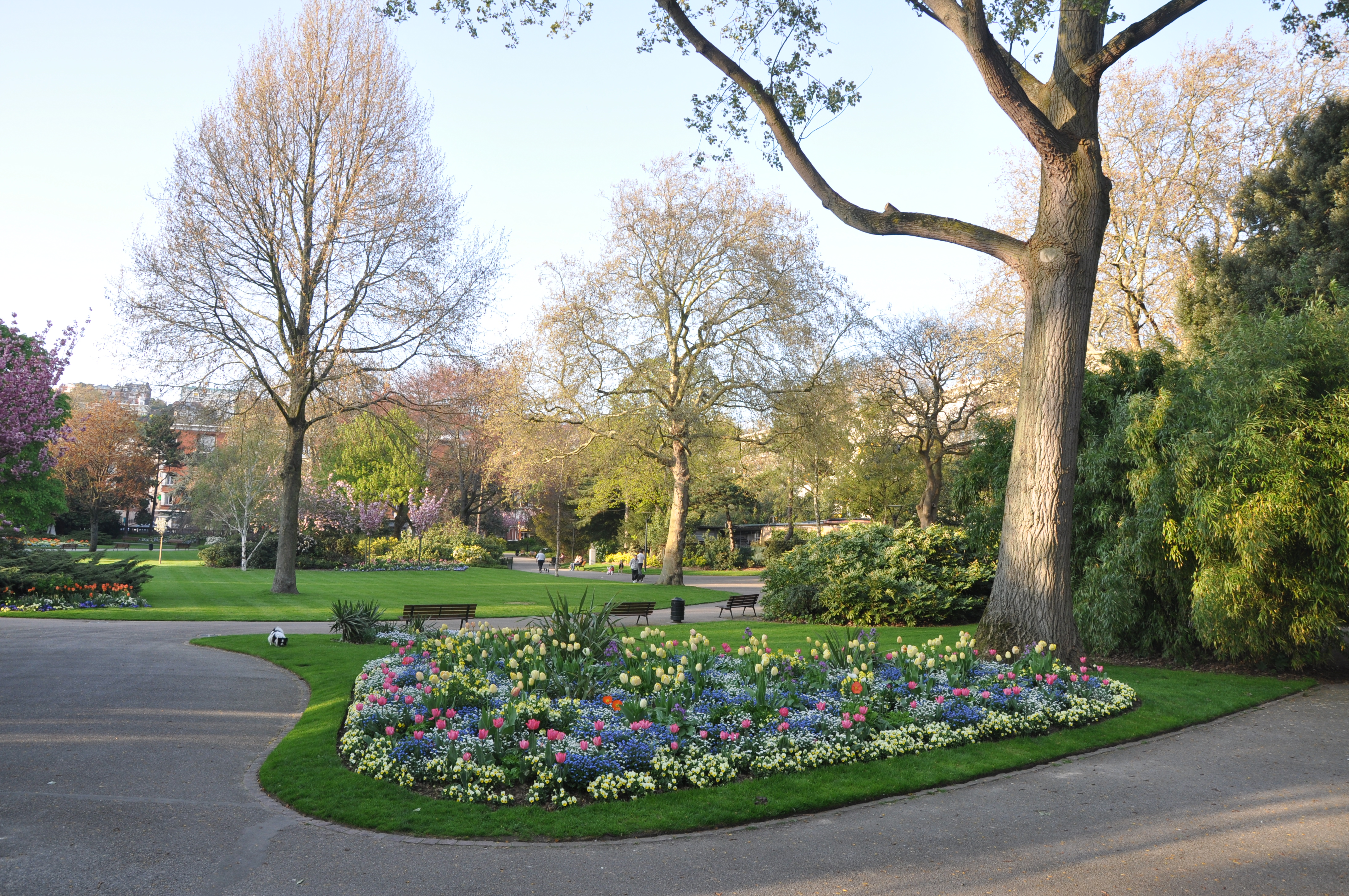 Le Havre (Normandy, France) : garden